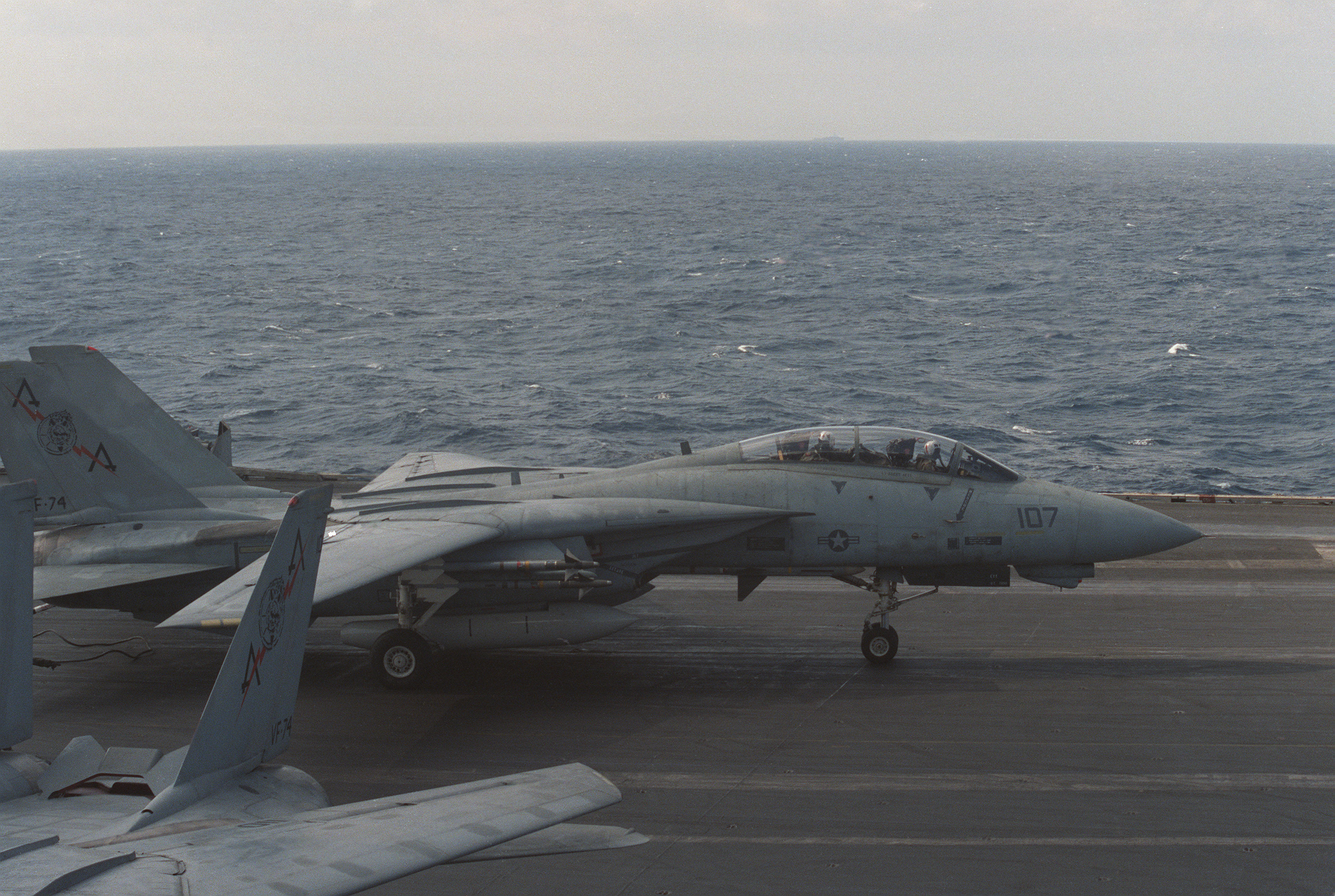 A U.S. Navy Grumman F-14A-105-GR Tomcat (BuNo 160908) from Fighter Squadron 74 (VF-74) "Be-Devilers" lands on the aircraft carrier USS Saratoga (CV-60) during flight operations in the Mediterranean Sea on 12 February 1986. VF-74 was assigned to Carrier Air Wing 17 (CVW-17) aboard the Saratoga for a deployment to the Mediterranean Sea from 26 August 1985 to 16 April 1986.